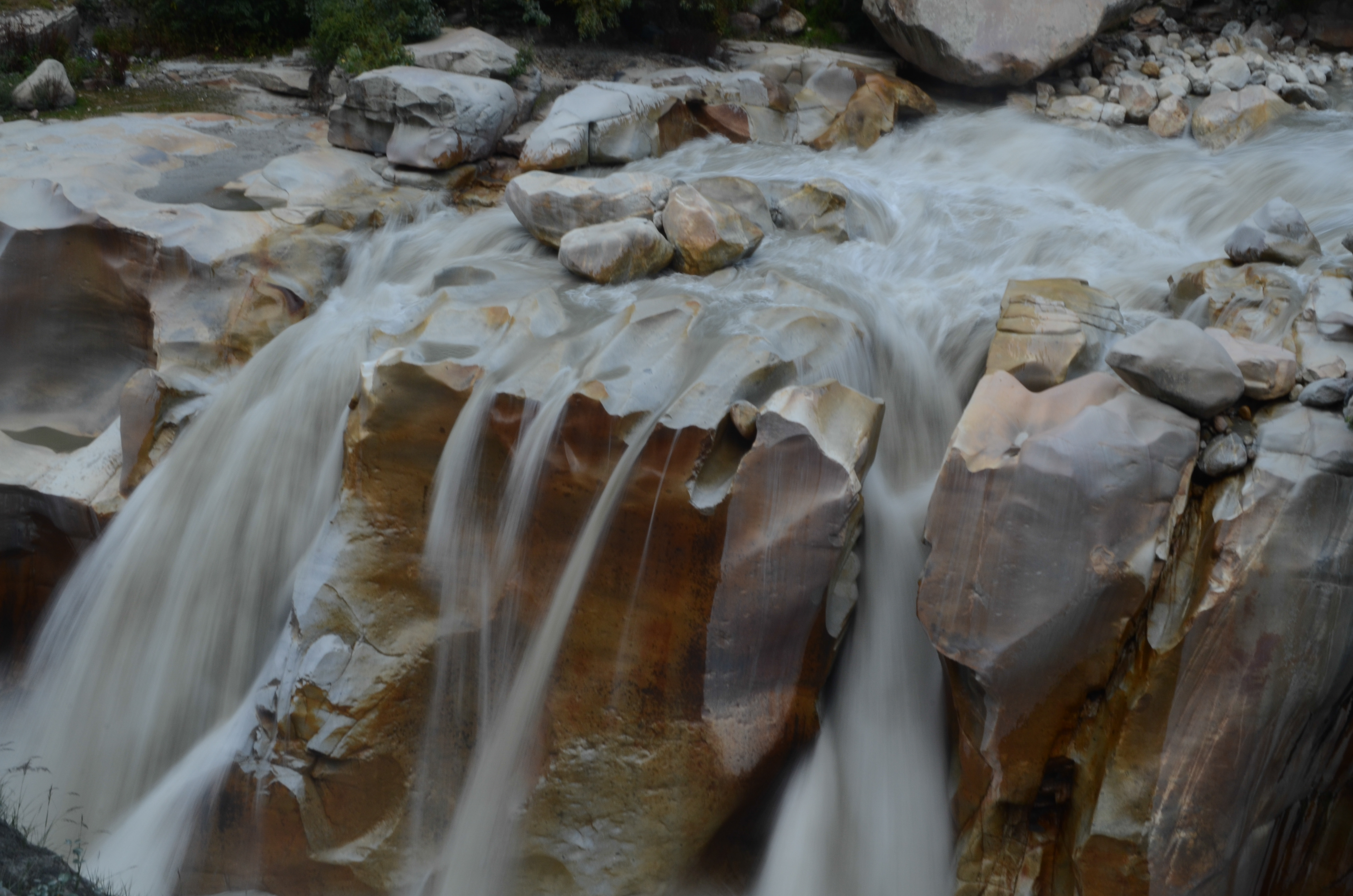 The image of Surya Kund waterfall was taken in the project WTK 2015 at Gangotri.